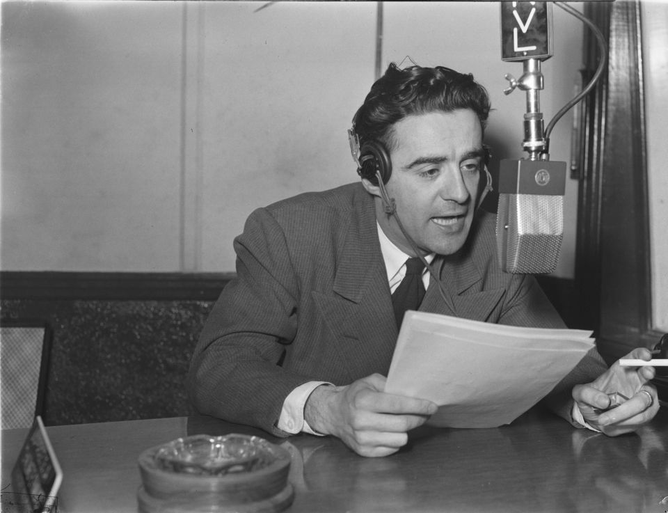 Guy Mauffette, wearing headphones, studio animating the show "The Parade of the French song" aired on CKVL in Montreal.